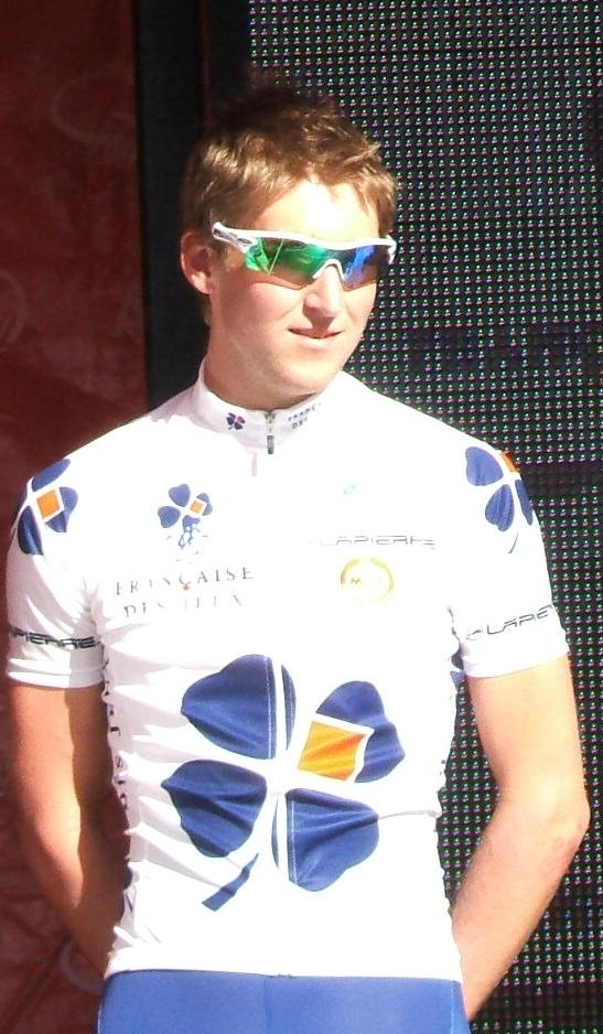 Named cyclist at the en:2009 Tour Down Under team presentation